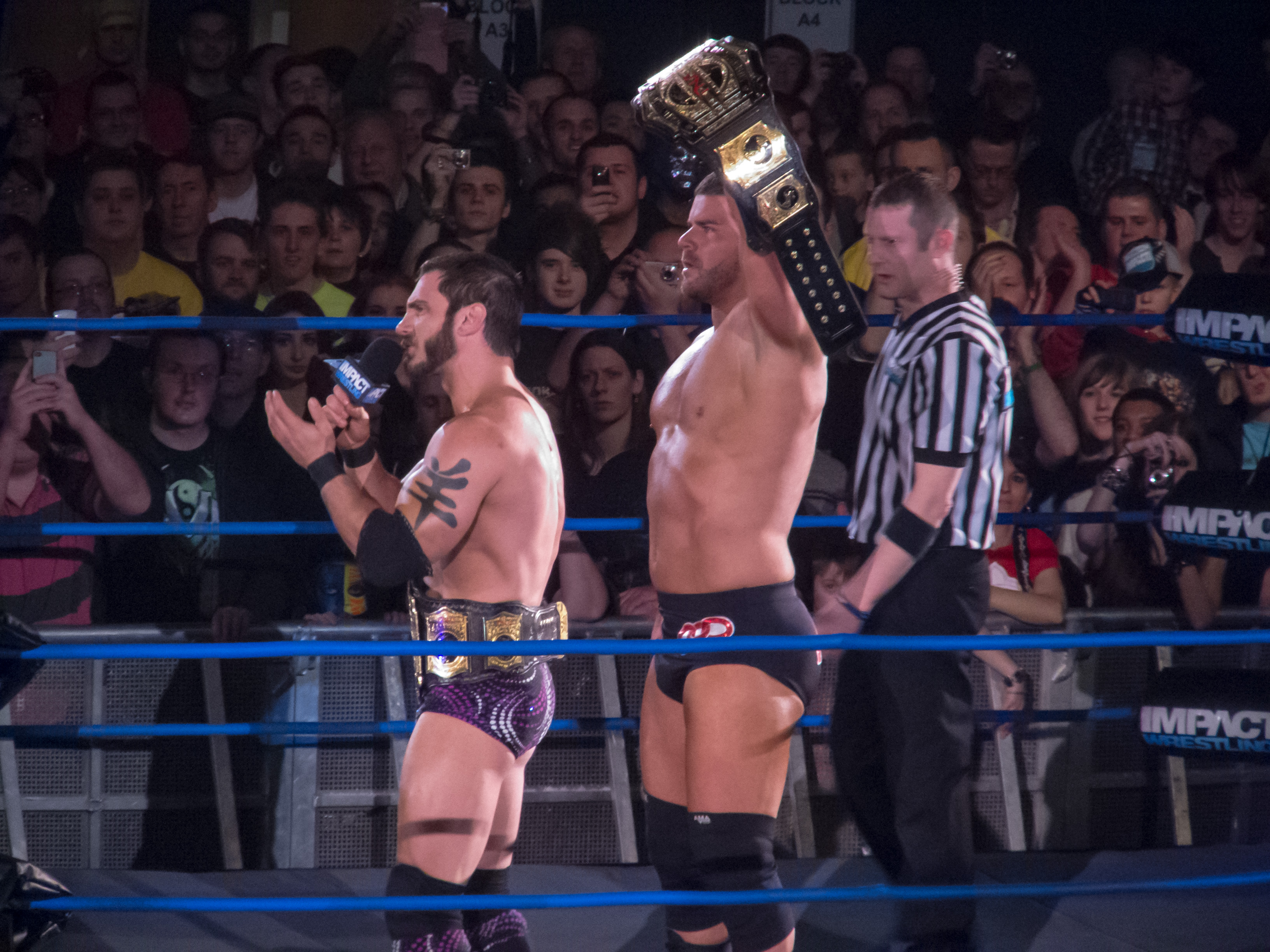 Austin Aries vs. Bobby Roode